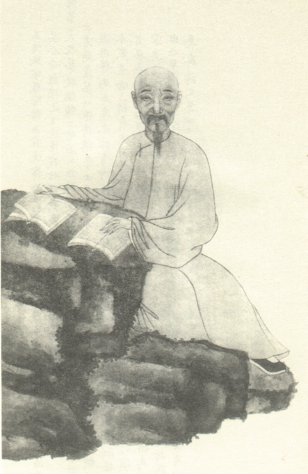 WANG Mingsheng, politician and scholar of the Qing Dynasty.